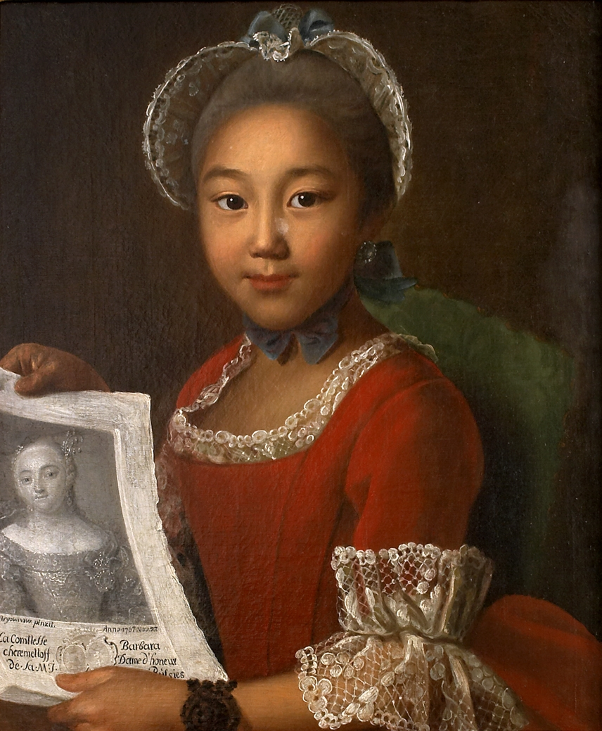 Annushka, a Kalmyk of Western Mongolian Oirat ancestry, was a serf and pupil of Countess Varvara Sheremeteva, daughter of Count Sheremetev. Argunov himself was a serf of Count Sheremetev (1713-1788). In her hands Annushka is holding the portrait of the late Count Varvara Sheremeteva.